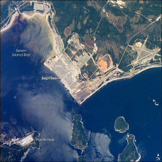 Astronaut photo of Sept-Îles, Quebec.